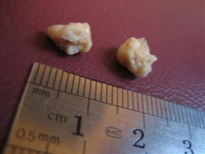 A large tonsillolith taken from my tonsil cavity with the back of a nail file.